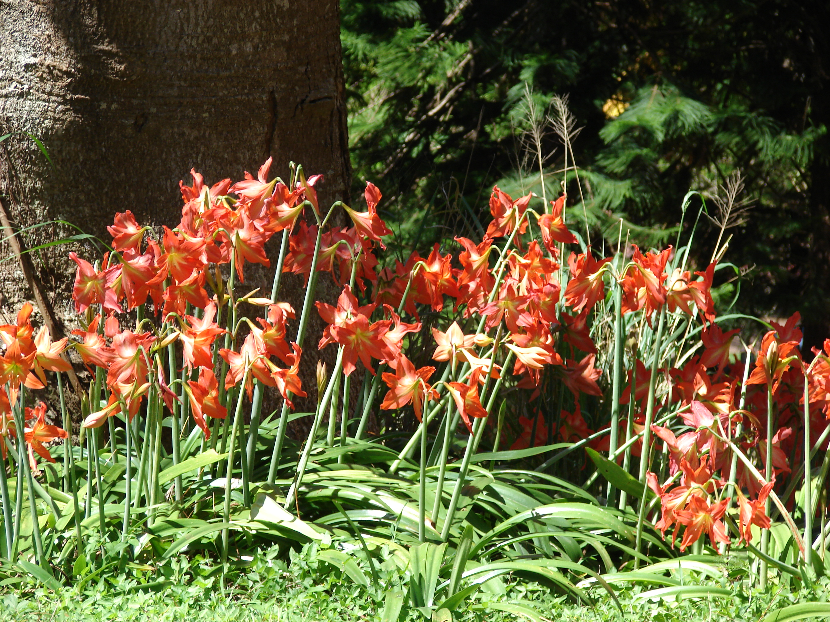 Hippeastrum striatum (flowering habit). Location: Lanai, Lanai City